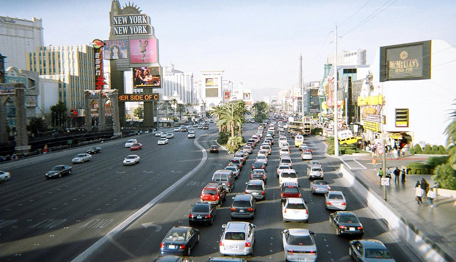 Las Vegas Blvd from bridge over MGM Grand